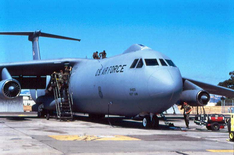 19th Airlift Squadron Lockheed C-141B-LM Starlifter 65-9403, Travis AFB, California (c/n 300-6140) Modified to C-141B about 1980. Retired to AMARC as CR0100 Jun 8, 2000. Broken up Sep 19, 2003.